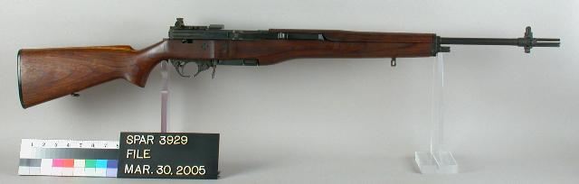 U.S. RIFLE T47 .30 (T65E3) SN# 102 Manufactured by Springfield Armory, Springfield, Ma. in 1951 - Lightweight shoulder-fired weapon designed to deliver both full and semi-automatic fire. Gas-operated, 20-round magazine feed system, and weighs approximately 8 1/4 lbs. Muzzle velocity 2750 fps. Cyclic rate of fire: 750-850 rpm. The T47 project terminated in 1953. Markings: Receiver: 102. RIFLE CALIBER .30 T25E1 (crossed out) T47 (etched on). Select switch: REPEAT AUTO above select switch. Weapon transferred to the Museum on 26 January 1959. At that time weapon was appraised at $250.00.